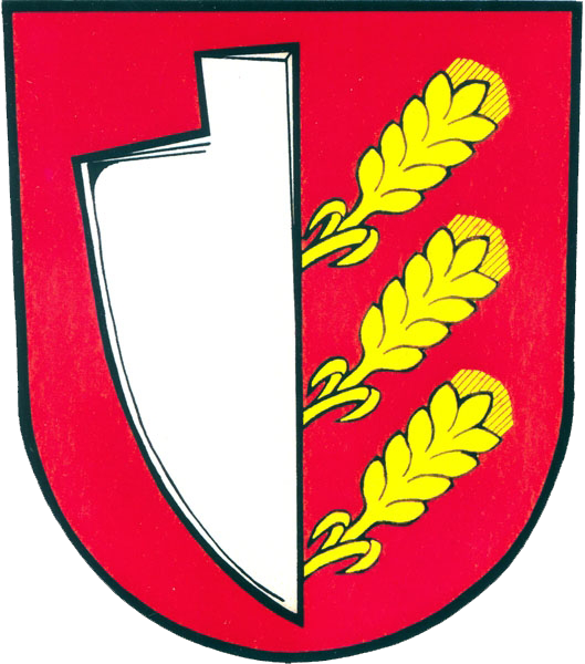 Coat of arms of village Jakartovice in Moravian-Silesian Region, Czech Republic. Česky: Znak Jakartovic, obce v Moravskoslezském kraji. (Blason: V červeném štítě vpravo stříbrná radlice, z níž šikmo nad sebou vynikají tři zlaté klasy..)